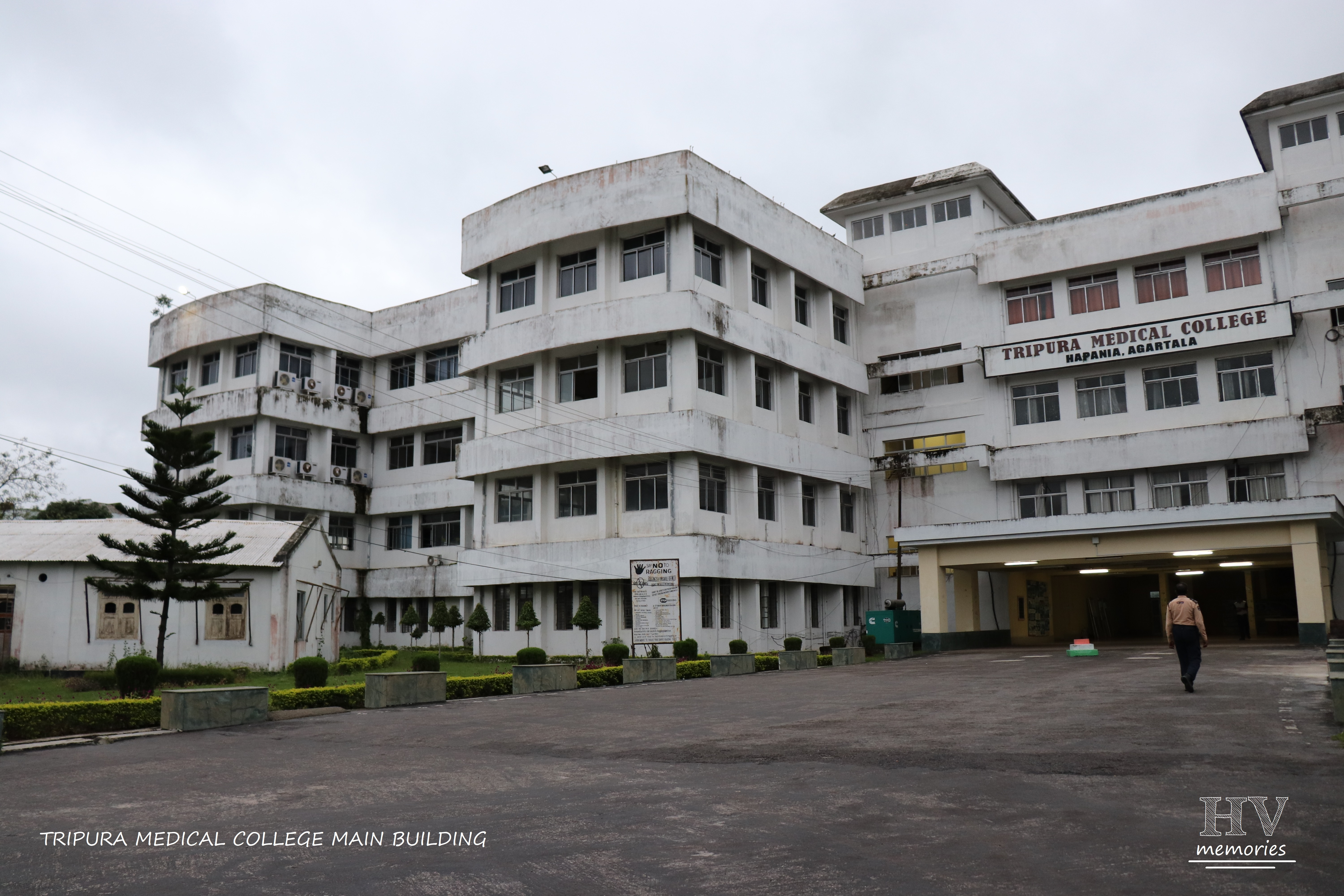 This is the main building of the campus. This block includes lecture halls, library room, professors' blocks, Labs, registrar office, etc.